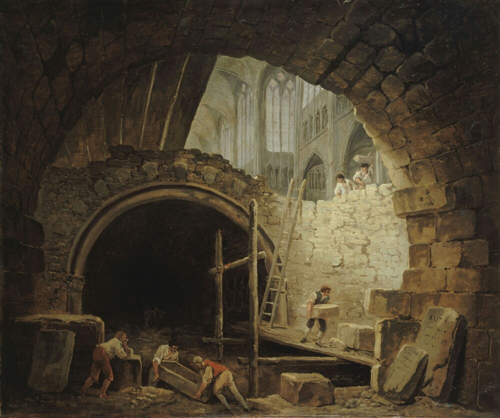 Violation des caveaux royaux de Saint-Denis, by Hubert Robert.